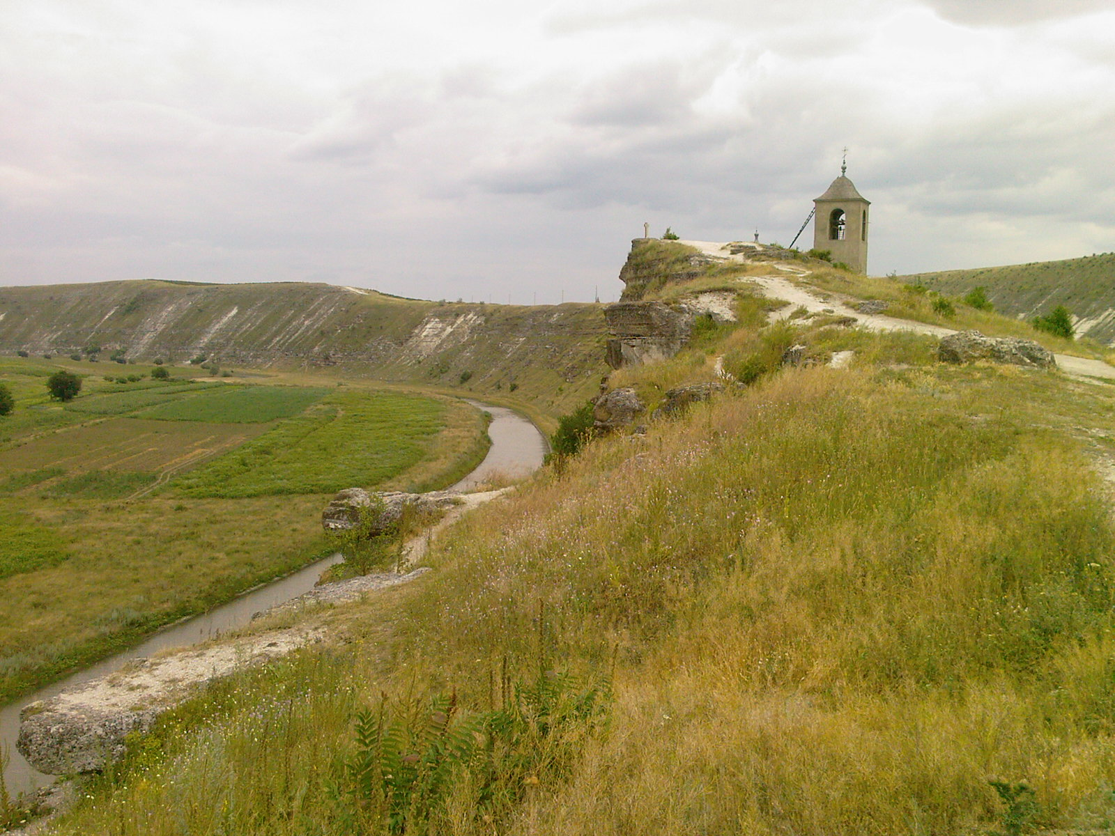 The ancient city Old Orhei - a unique natural and historical complex in the open air. It organically combines the natural landscape and vestiges of ancient civilizations. As a result of enormous archeological excavations here there were discovered the cultural layers of different epochs such as - the Paleolithic, Eneolithic, and Iron Age.